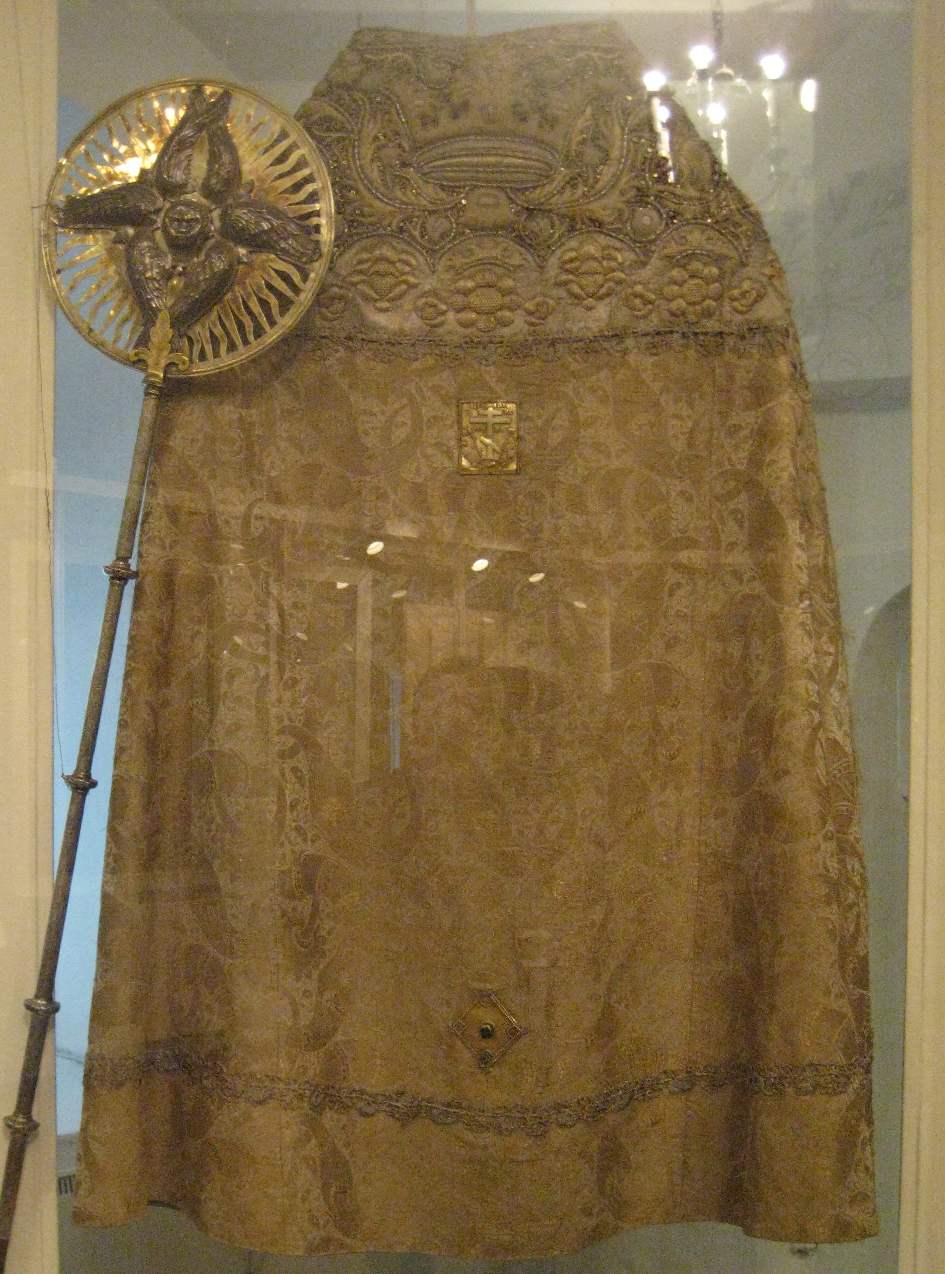 Phelonion (chasuable, 18th c.) and ripidion (ceremonial fan, 19th c.) from Pskov museum.